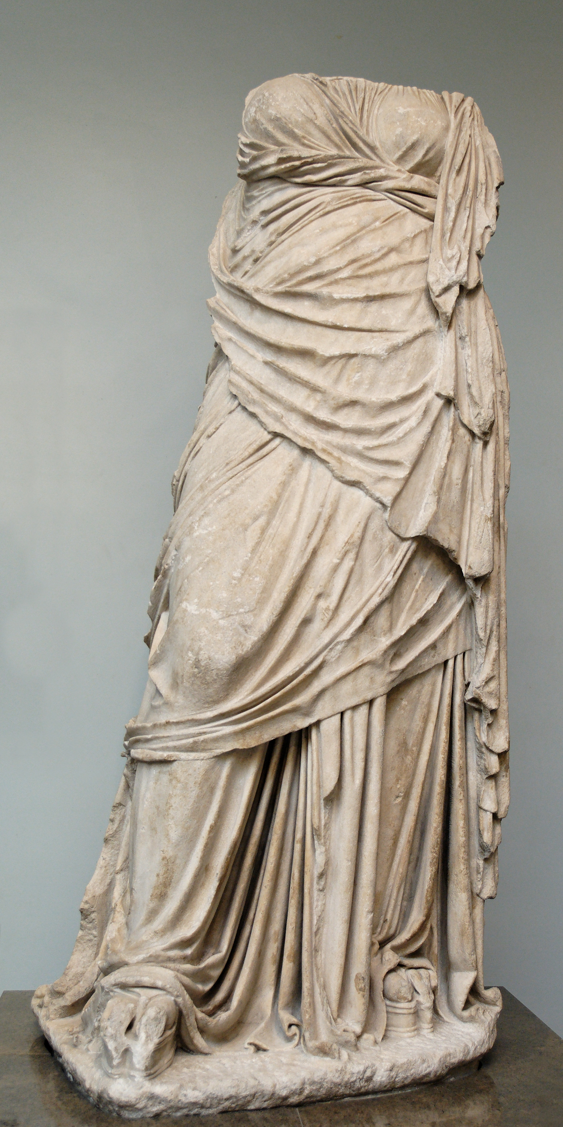 Statue of a woman wrapped in a cloak a wearing platform sandals, previously thought to be a Muse, maybe a portrait actually. Marble, Later Hellenistic artwork, 200-160 BC.